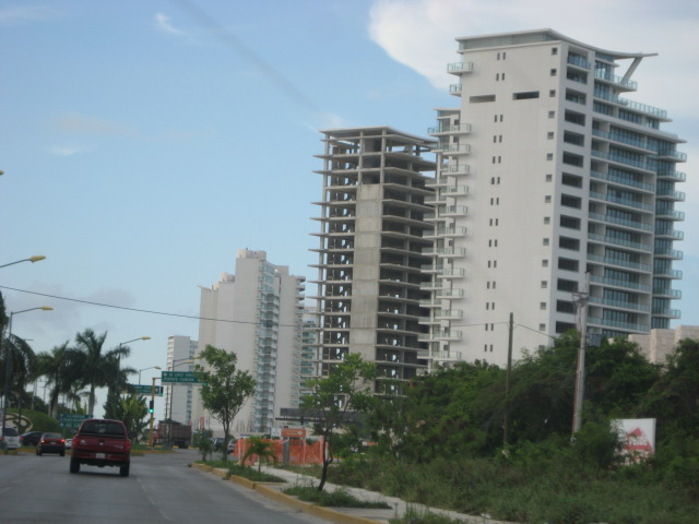 Skyline in av. Bonampak Cancun city